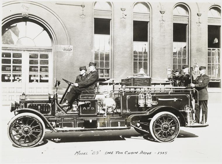 Digital ID: 480981. Model 25 One ton chain drive - 1915. [Fire truck carrying uniformed fire fighters]. 1915 Source: Photographs of General Motors and Chrysler car and truck models, 1902 - 1938. / General Motors Truck Company, Pontiac, Michigan, 1936, photographs - specifications ( Repository: The New York Public Library. Science, Industry and Business Library. General Collection Division. See more information about and others at Persistent URL: Rights Info: No known copyright restrictions; may be subject to third party rights (for more information